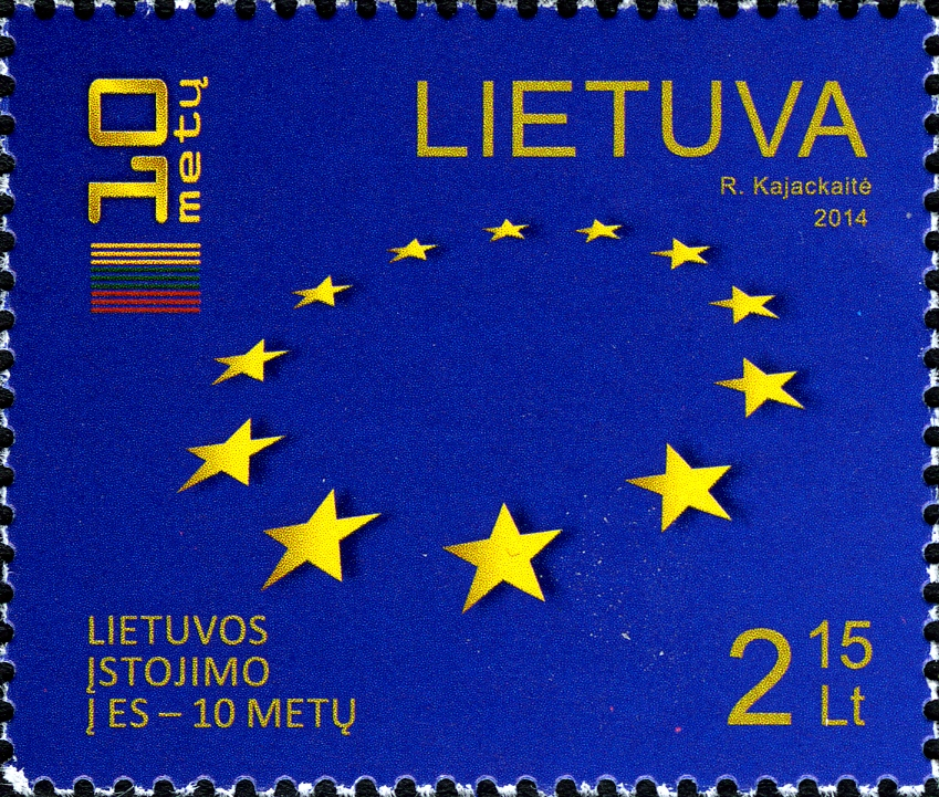 Stamps of Lithuania, 2014